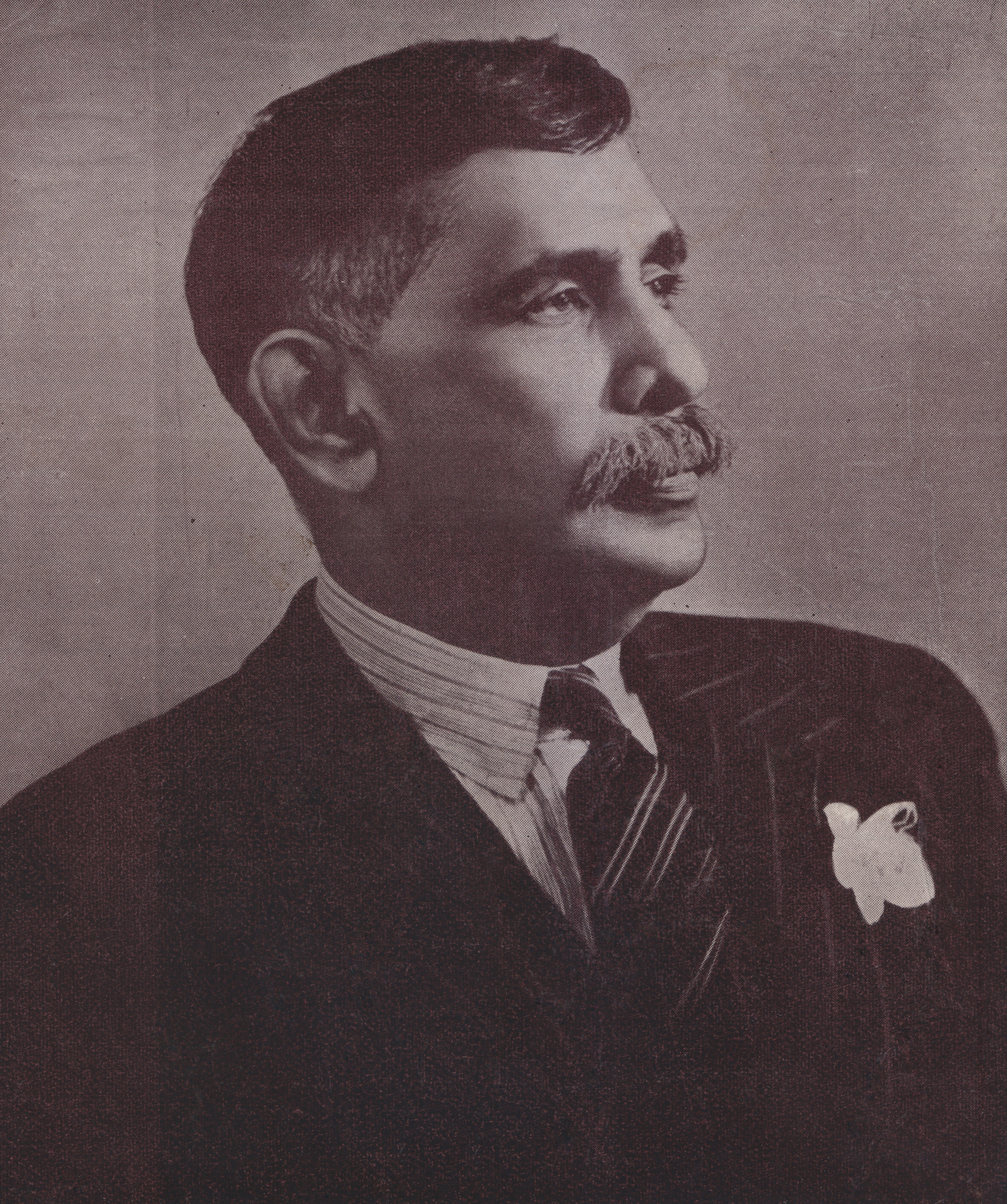 Official Photographic Portrait of first Prime Minister of Ceylon (Sri Lanka),Rt.Hon Don Stephen Senanayaka-served from 1947 to until his untimely death in 1952